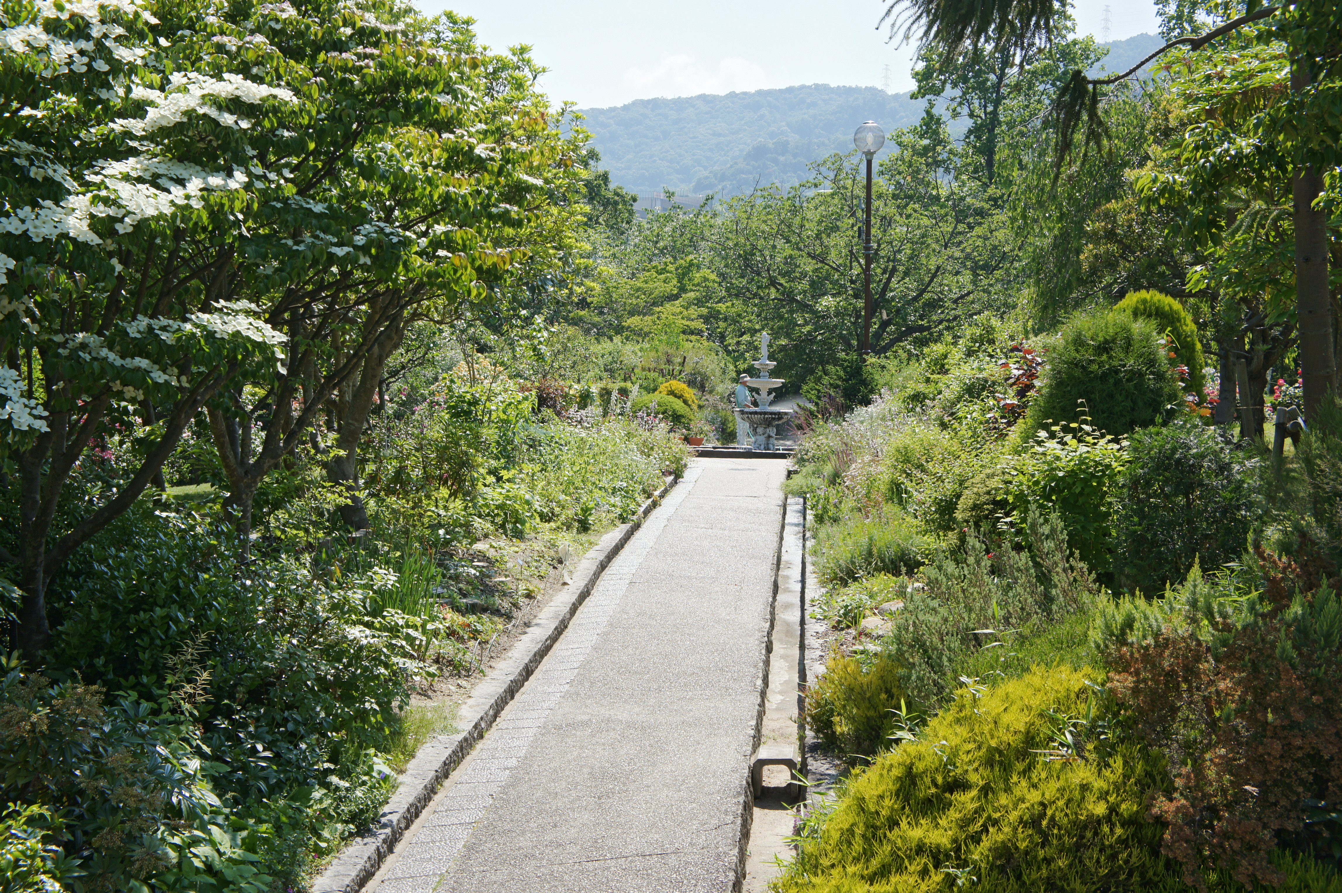 Kitayama Botanical Garden in Nishinomiya, Hyogo prefecture, Japan